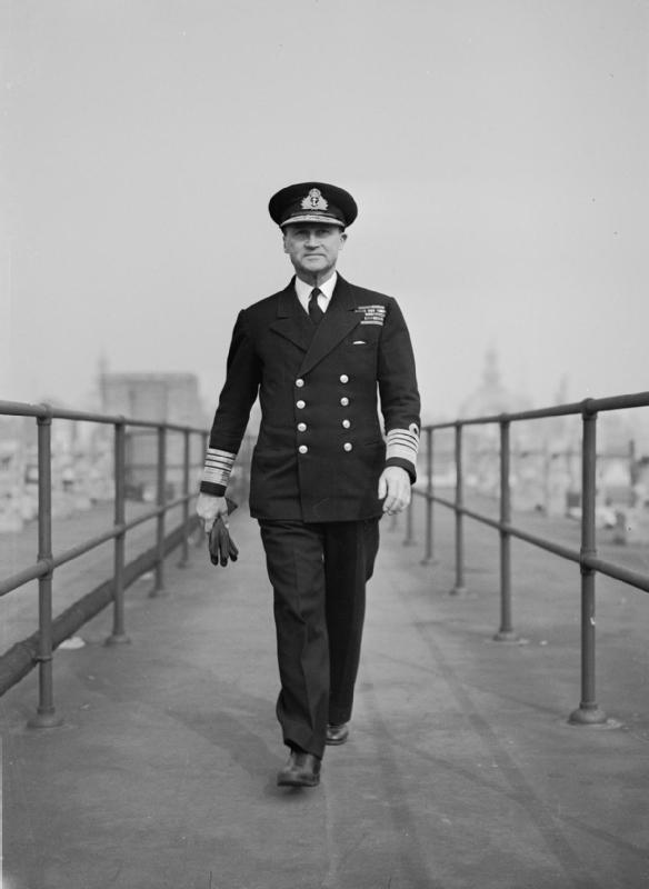 Operation Overlord (the Normandy Landings)- D-day 6 June 1944- Personalities Admiral Sir Bertram Ramsay KCB MVO Allied Naval Commander-in-Chief of the Expeditionary Forces, photographed at his London Headquarters at Norfolk House.